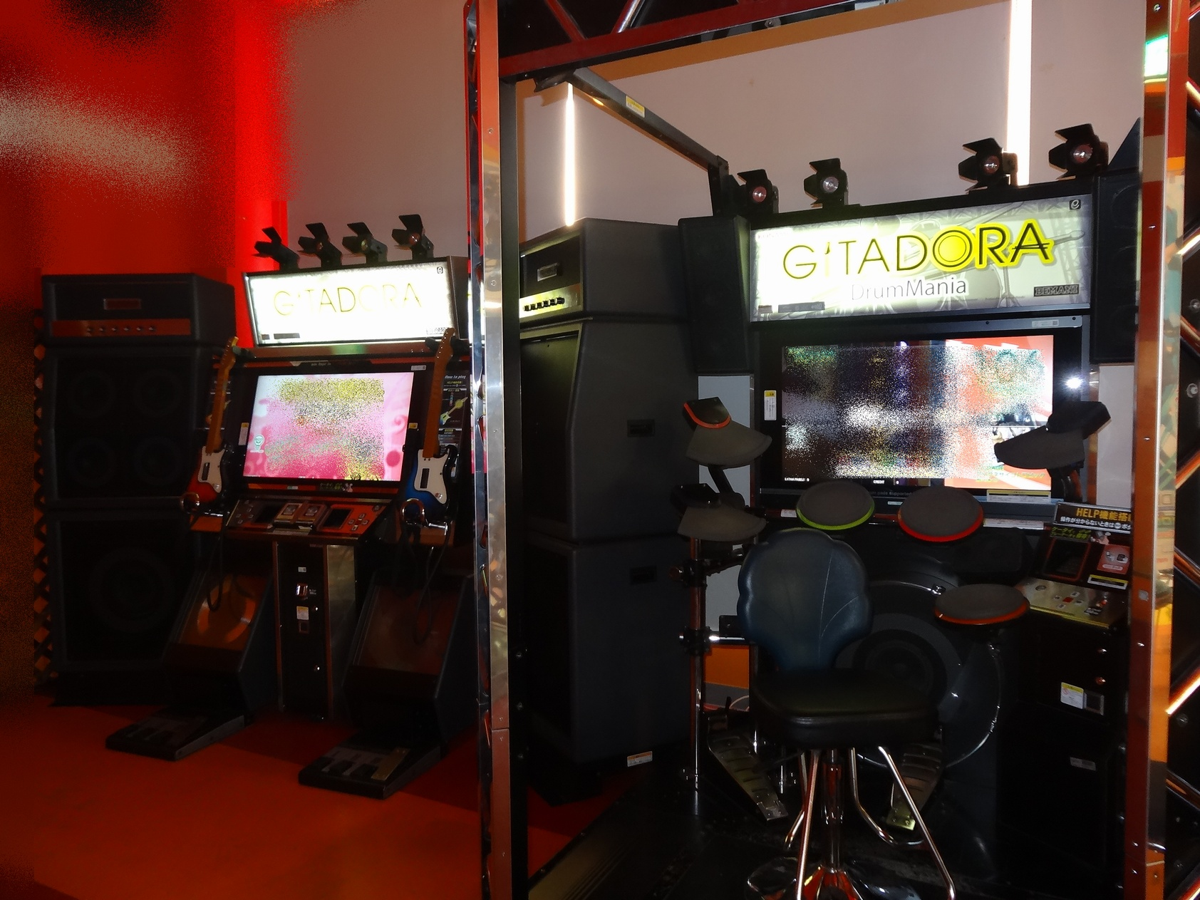 GITADORA OverDrive (GuiterFreaks and DrumMania)